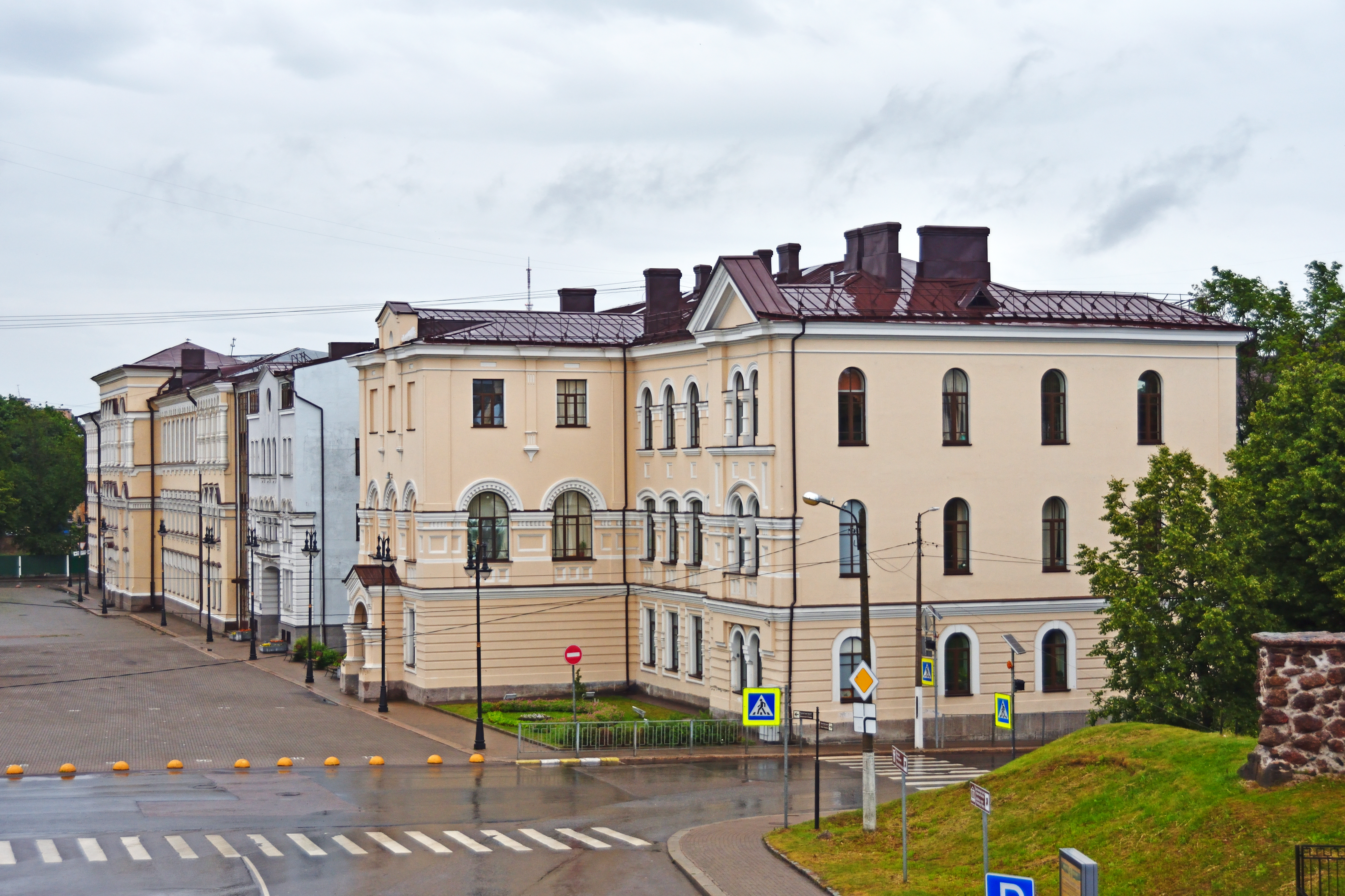 Education building on Vyborgskaya Street 34, Vyborg, Leningrad oblast, Russia